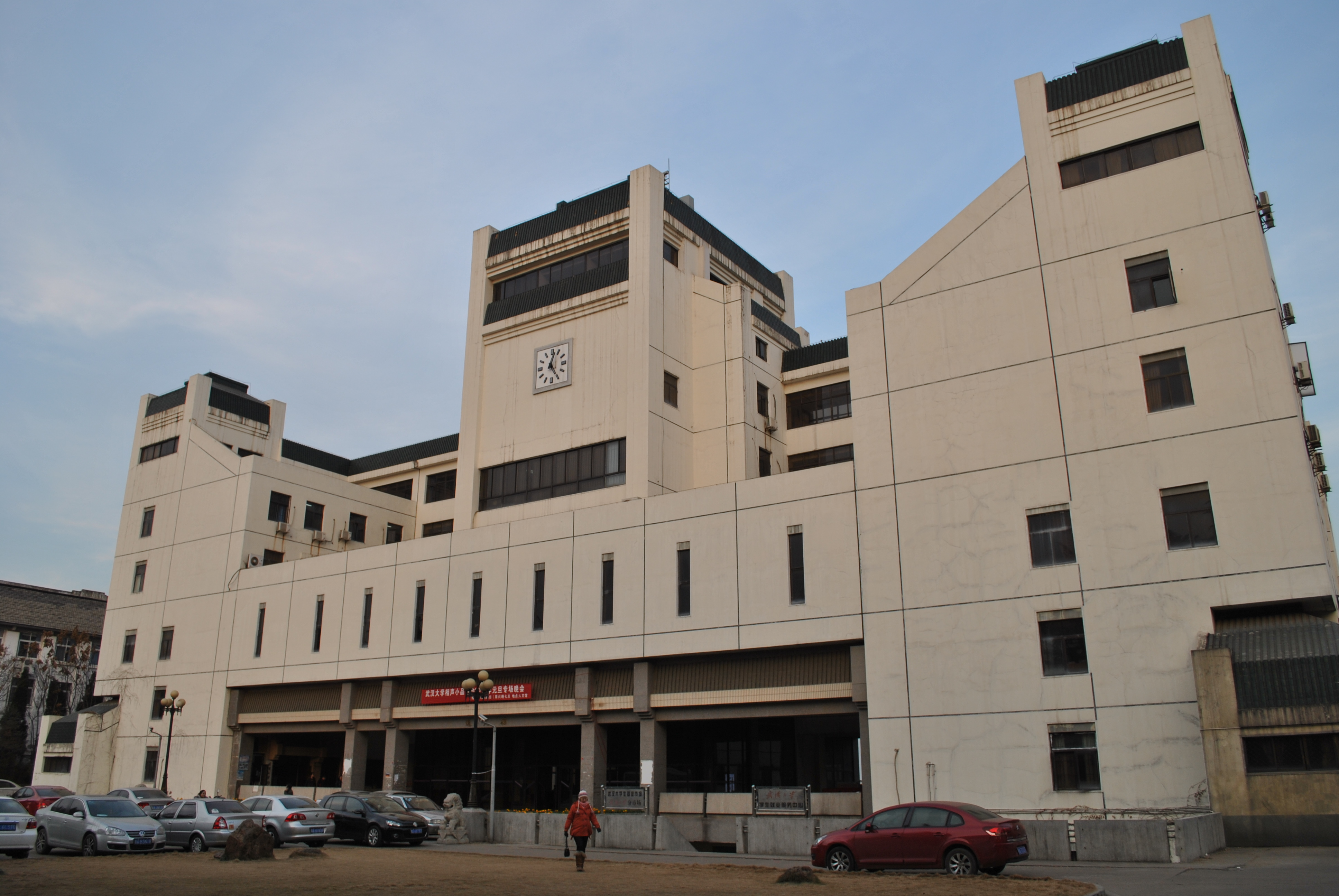 college of chinese and history of Wuhan University